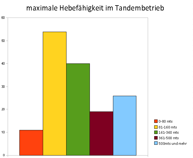 Overview of the working load of the BBC Chartering fleet (Dec. 2012)